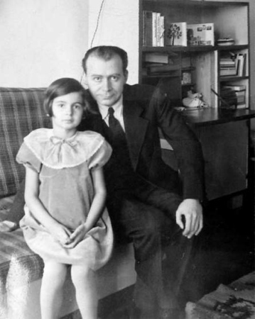 Lucian Blaga with daughter